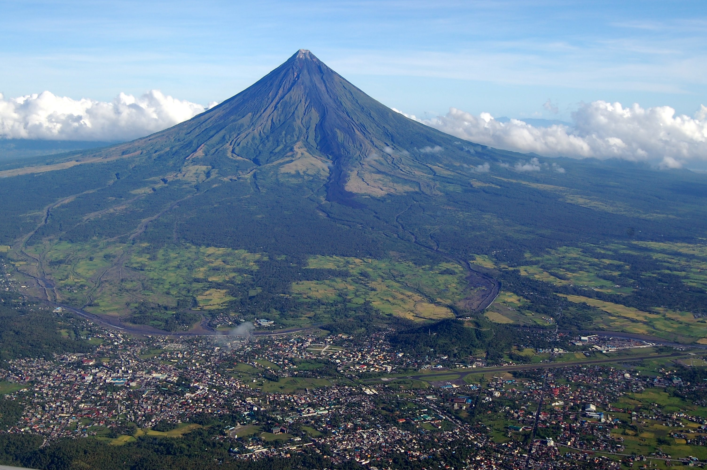 Aerial view of Mt. Mayon